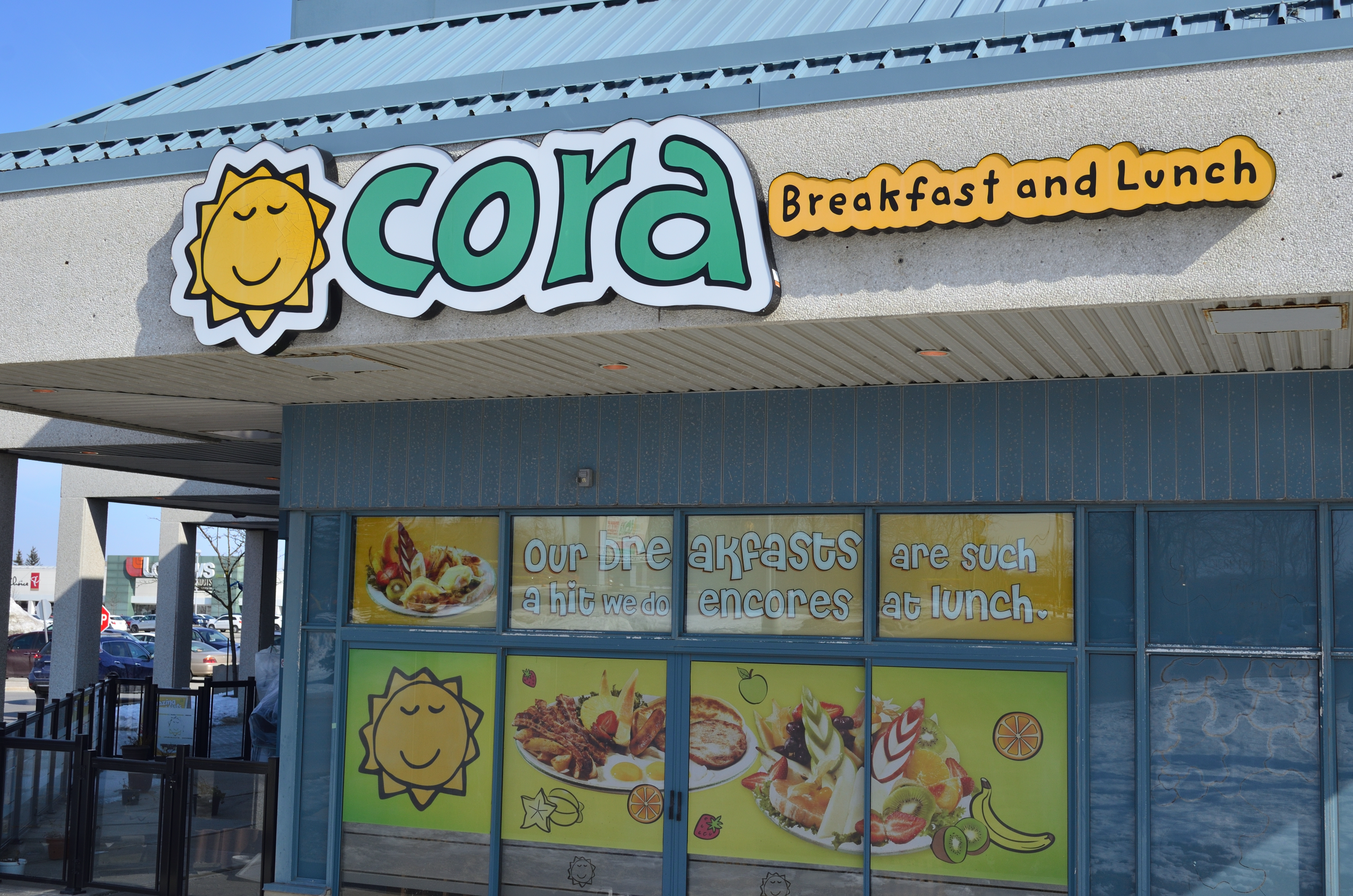 Cora - Address: 10909 Yonge St, Richmond Hill, ON L4C 3E3